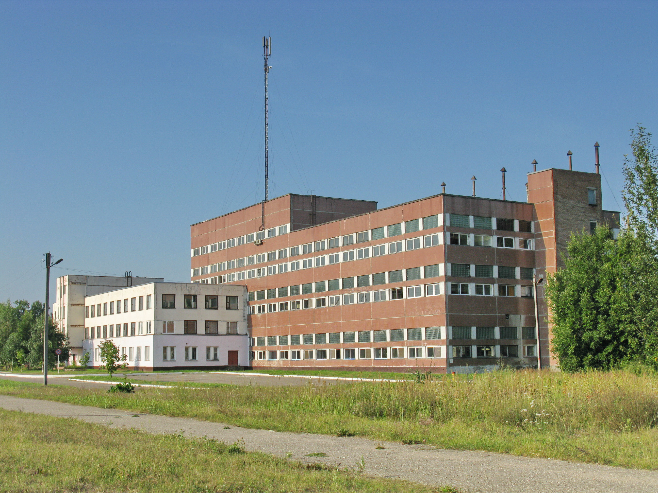 Smarhon bakery, Belarus